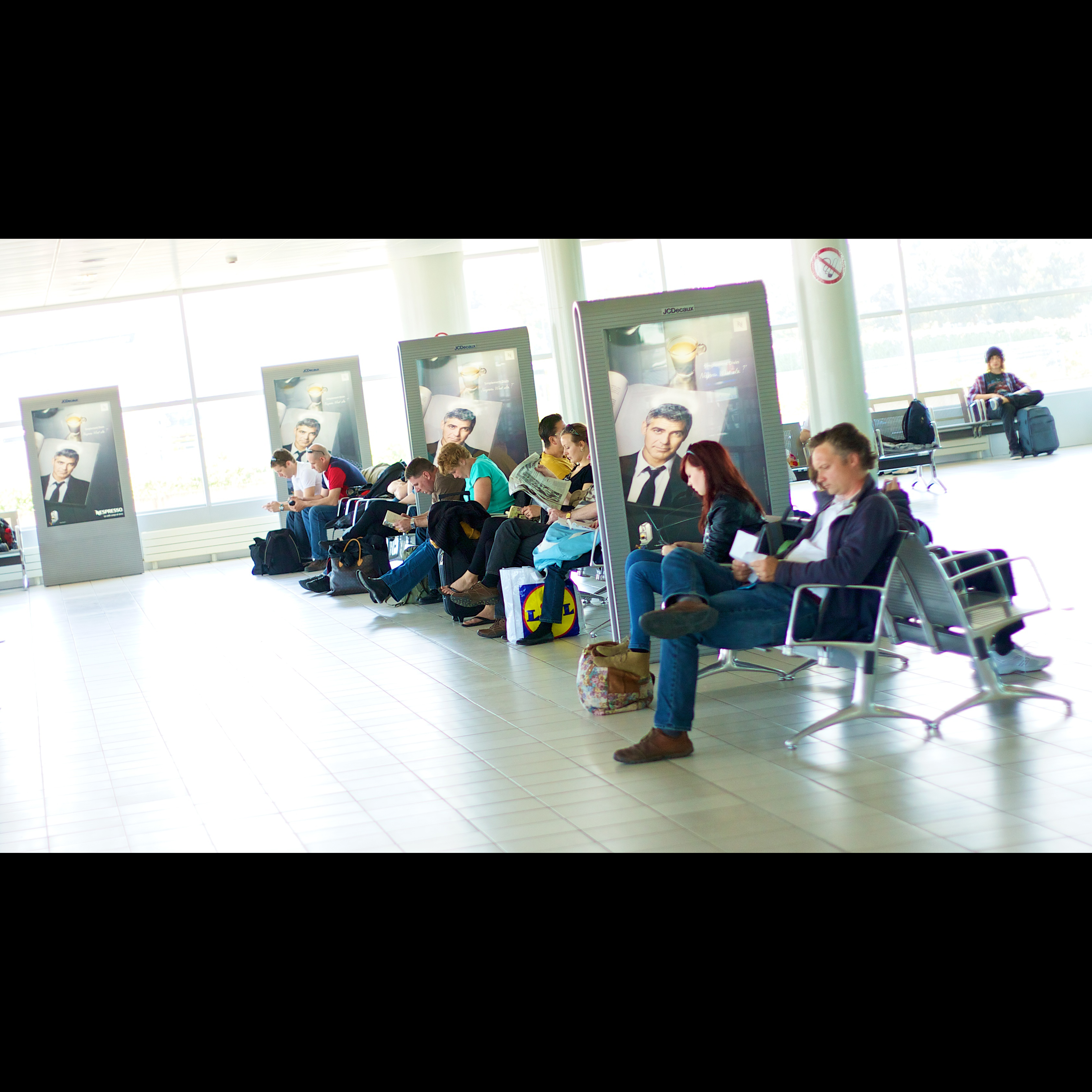 Passengers waiting at Rennes airport, 22 April 2011